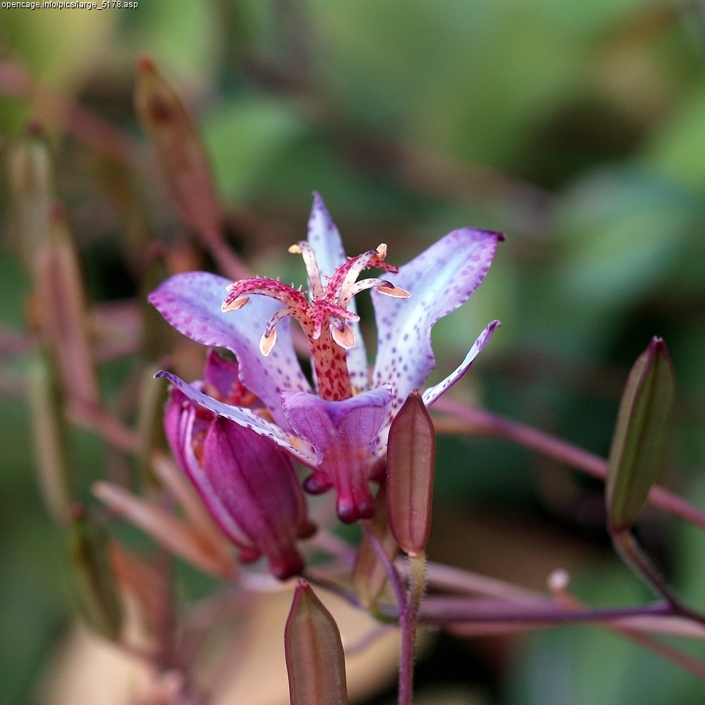 タイワンホトトギス Toad lily Kingdom:Plantae Phylum:Magnoliophyta Class:Liliopsida Order:Liliales Family:Liliaceae Genus:Tricyrtis 植物界 被子植物門 単子葉植物綱 ユリ目 ユリ科 ホトトギス属 Species Tricyrtis formosana Location Nagata-ku, KOBE, Japan Other photos; Copyright OpenCage